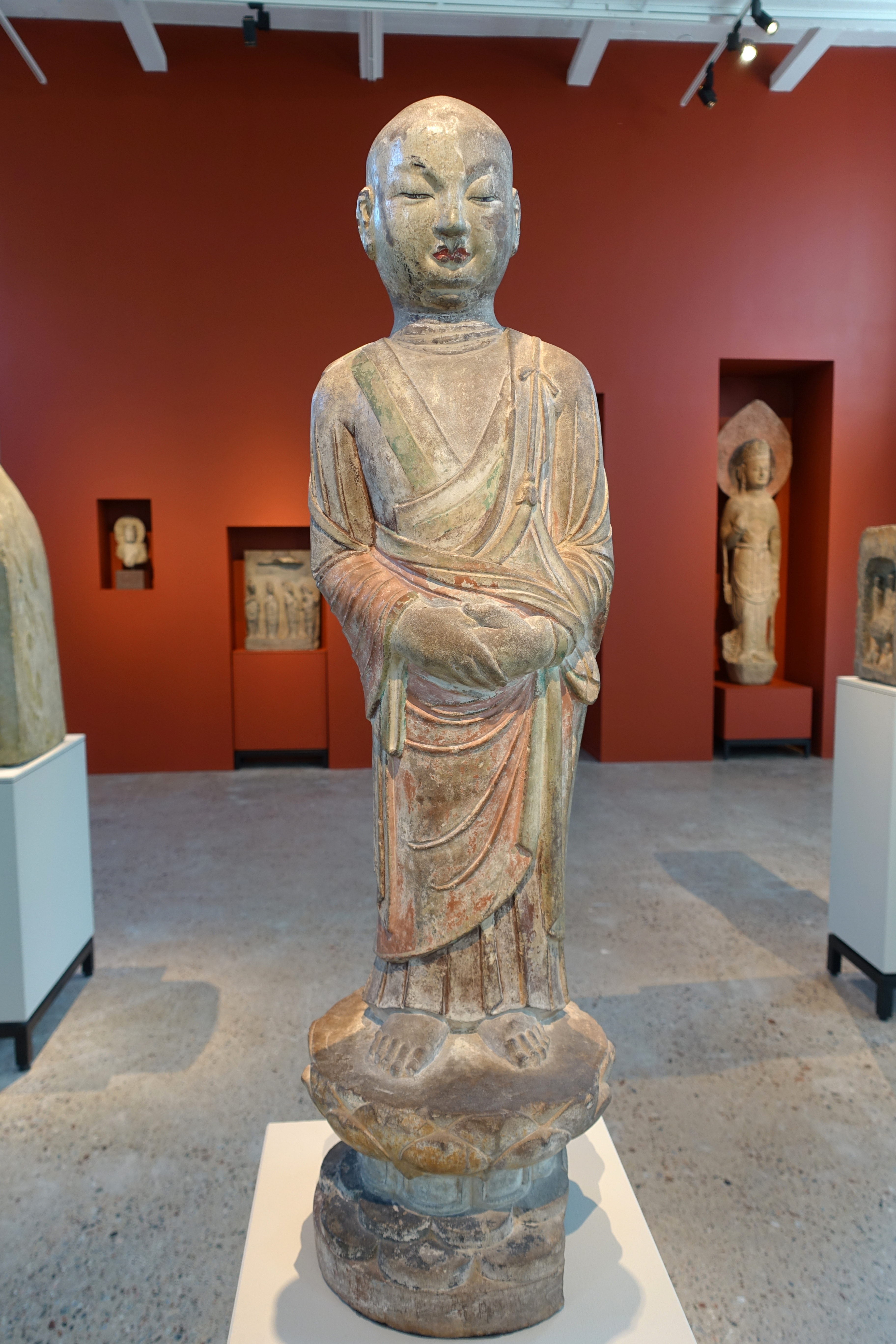 Exhibit in the Östasiatiska museet, Stockholm, Sweden. This artwork is old enough so that it is in the public domain.